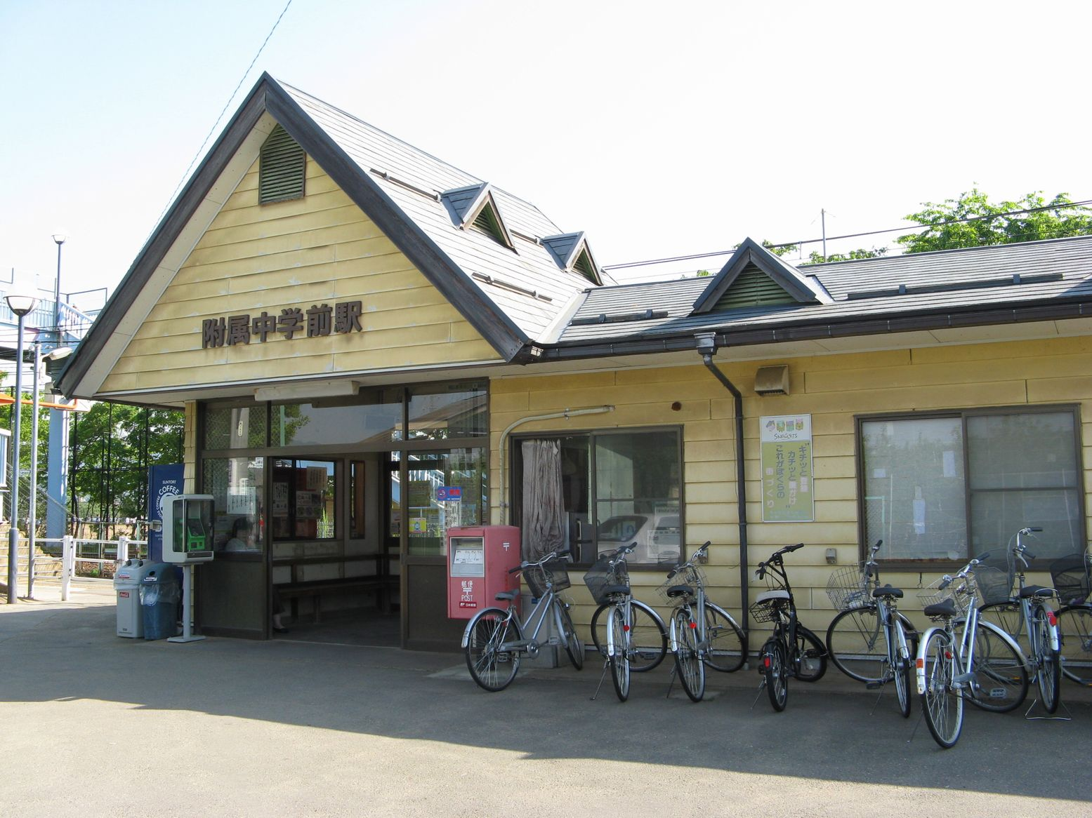 Fuzokuchugakko Station in Nagano city, Nagano Prefecture, Japan